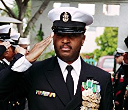 Malcolm Wrightson Nance is a retired United States Navy Senior Chief Petty Officer in naval cryptology and author, scholar, and media commentator on international terrorism, intelligence, insurgency and torture